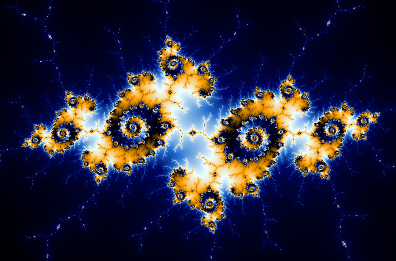 An image of a feature inside the Mandelbrot set